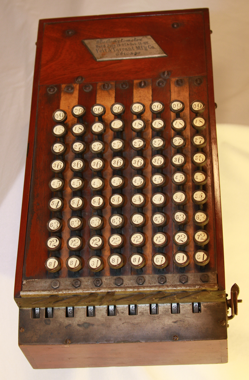 Front picture of a very early comptometer